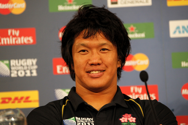 Takashi Kikutani, captain of Japan national rugby union team, at a press conference during the 2011 Rugby World Cup